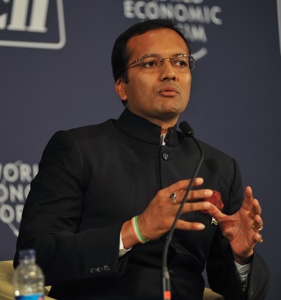 Naveen Jindal, Member of Parliament, India and Vice-Chairman, Jindal Steel and Power, India; Young Global Leader, during the Fostering Public Leadership at the World Economic Forum's India Economic Summit 2010 held in New Delhi, 14-16 November 2010.